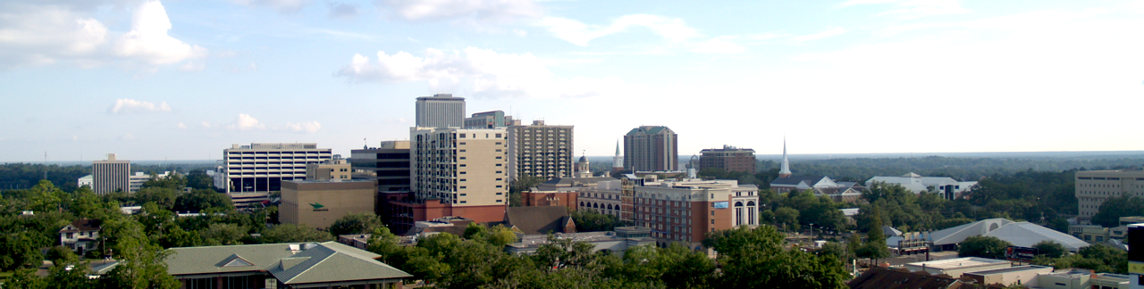 Tallahassee Skyline